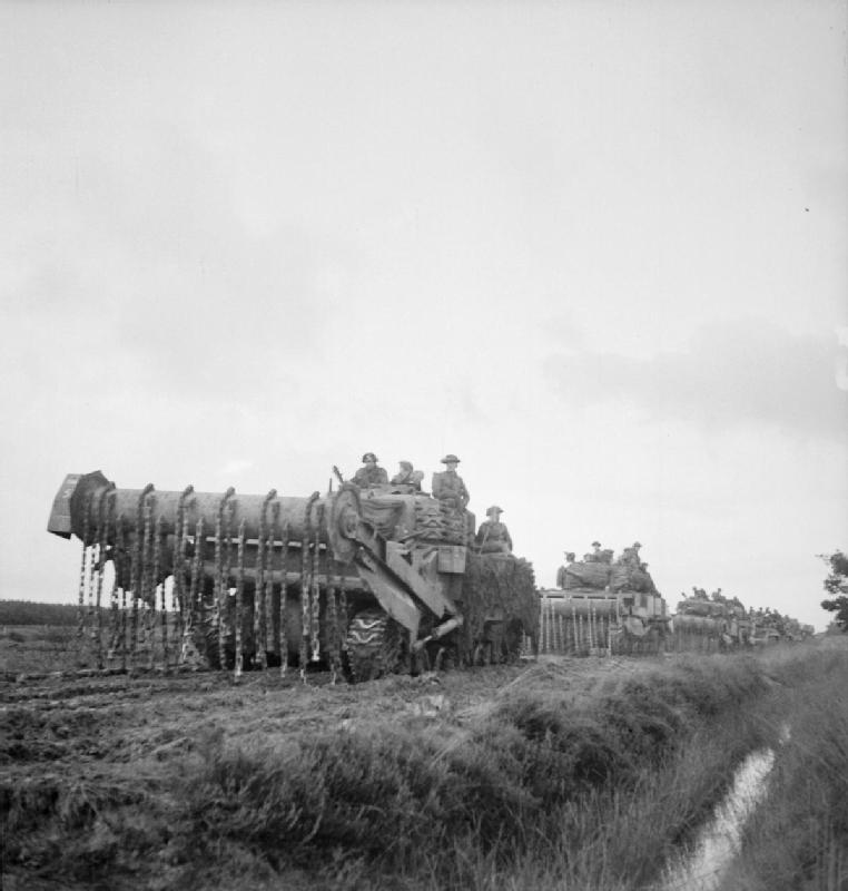 The British Army in North-west Europe 1944-45 Sherman Crab flail tanks of the Westminster Dragoons carrying infantry of 2nd Argyll and Sutherland Highlanders during the advance east of Beringe, 22 November 1944.